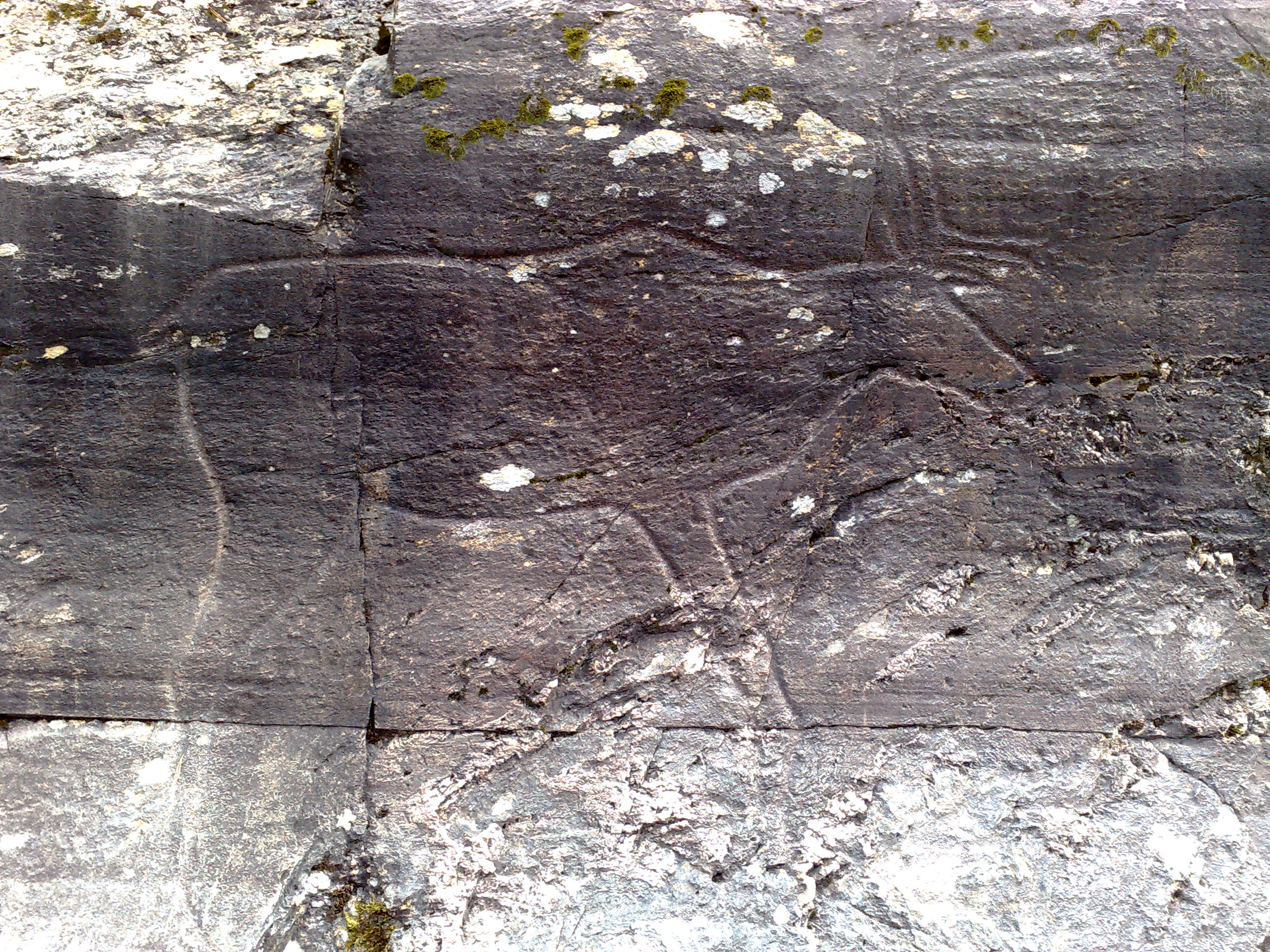 Bølareinen, Norway's most well-known rock-carving